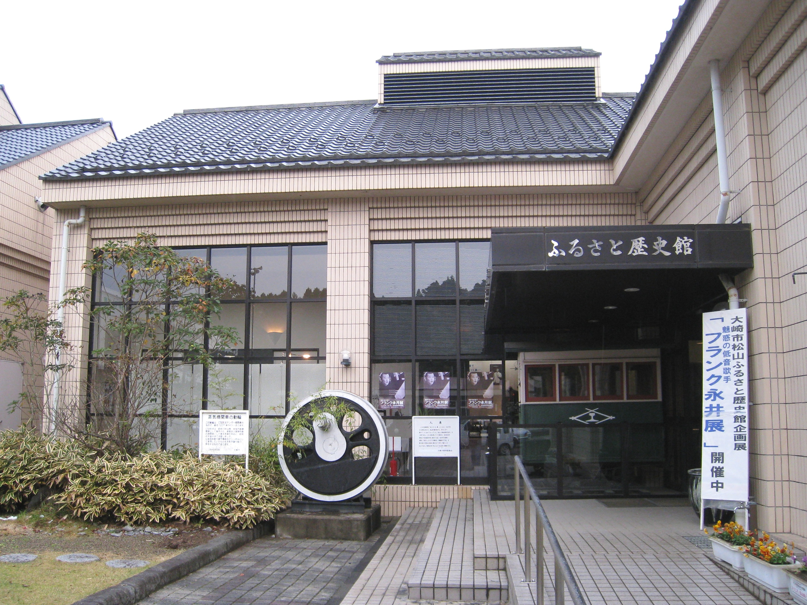 Photograph of Osaki City Matsuyama Furusato History Museum exterior, is museum in Osaki City, Miyagi Prefecture. photo date and time 15:09 November 20, 2008